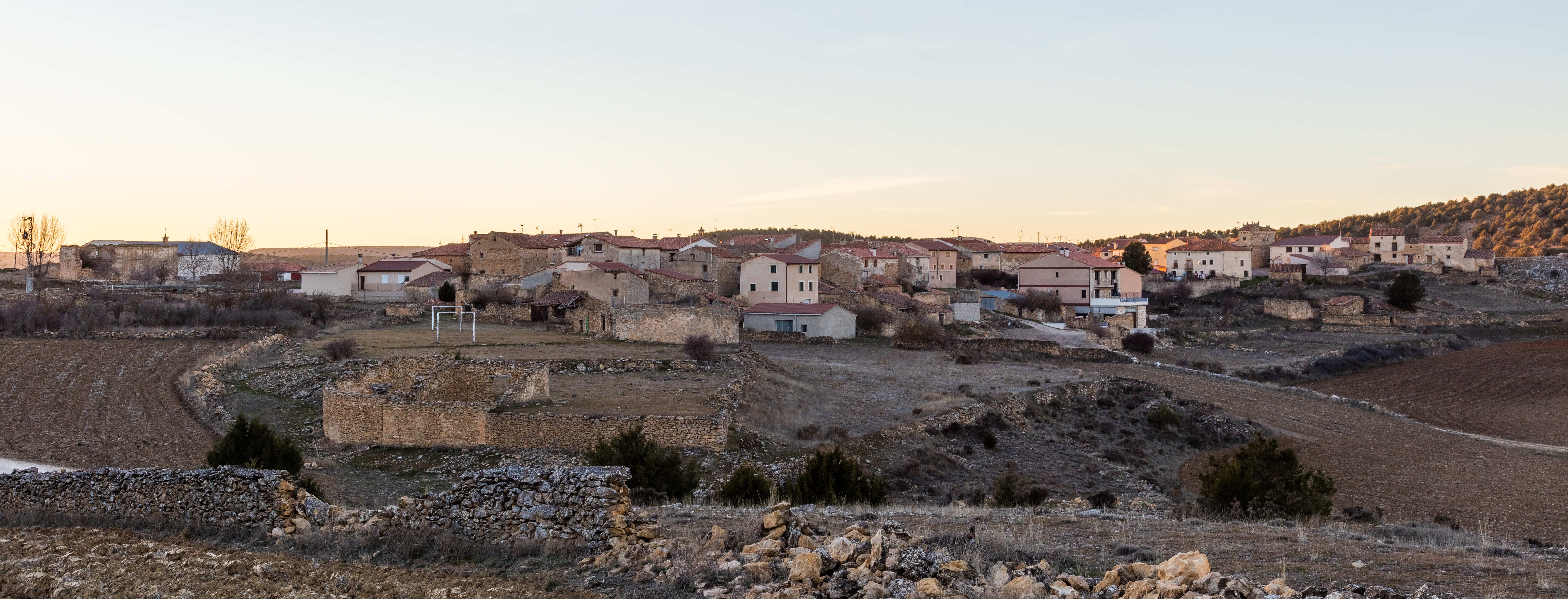 Anchuela del Campo, Guadalajara, Spain